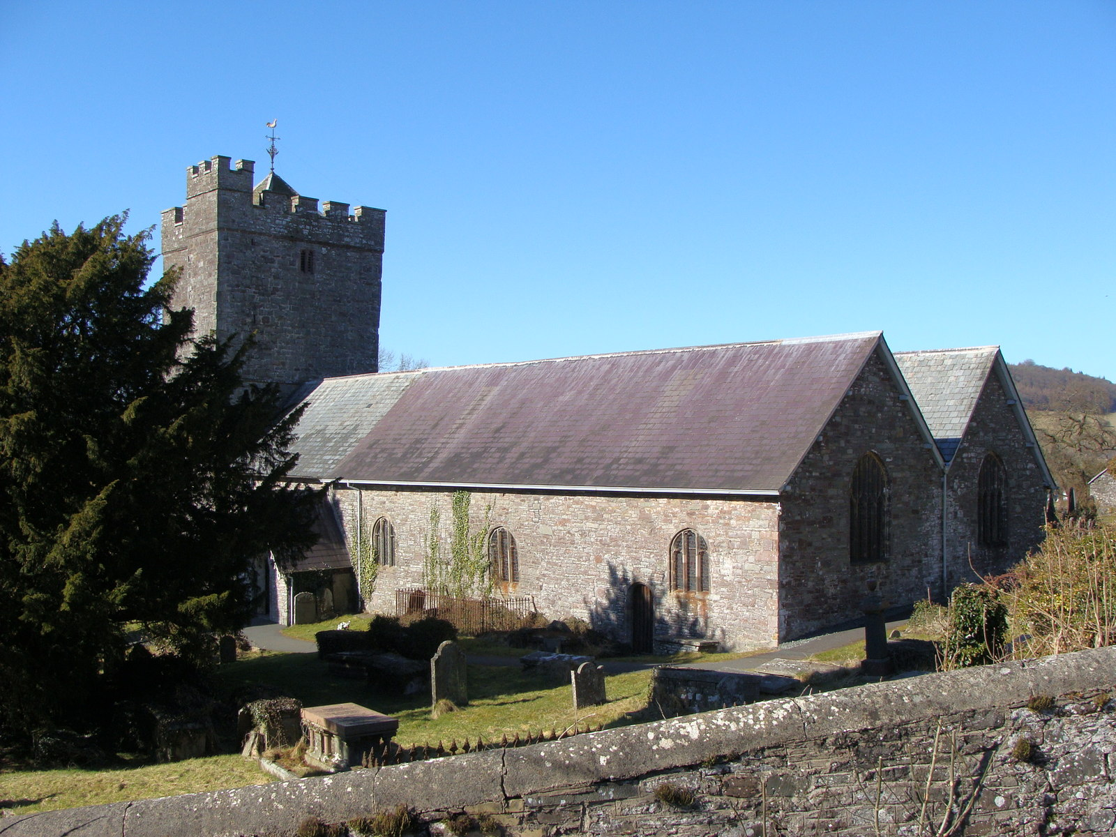 St. cynog's church, Defynnog